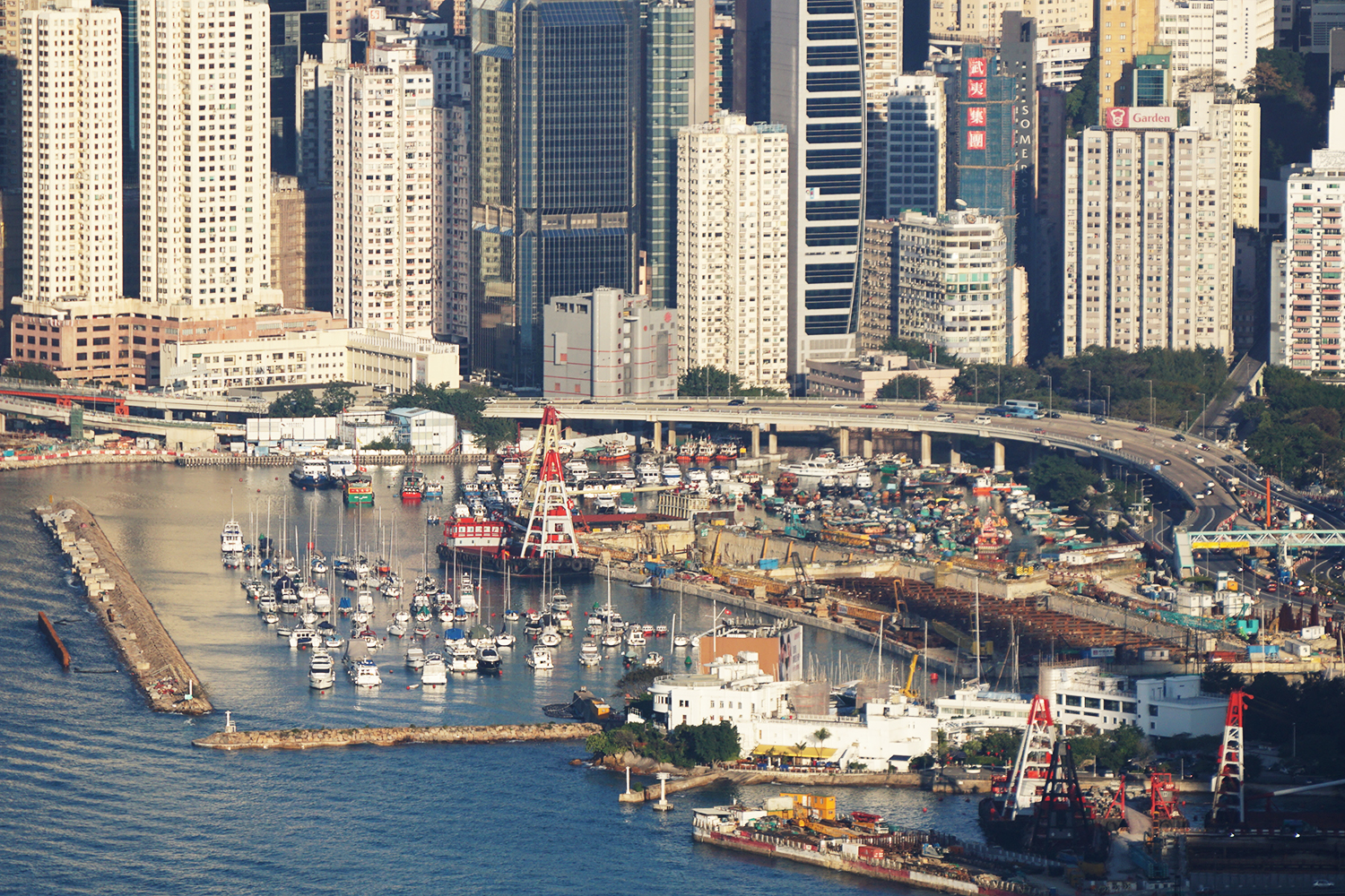 Typhoon Shelter in Causeway Bay, Hong Kong.